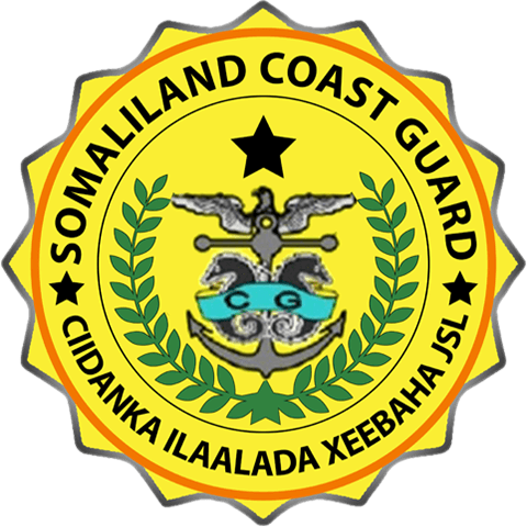 Emblem of the Somaliland Coast Guard